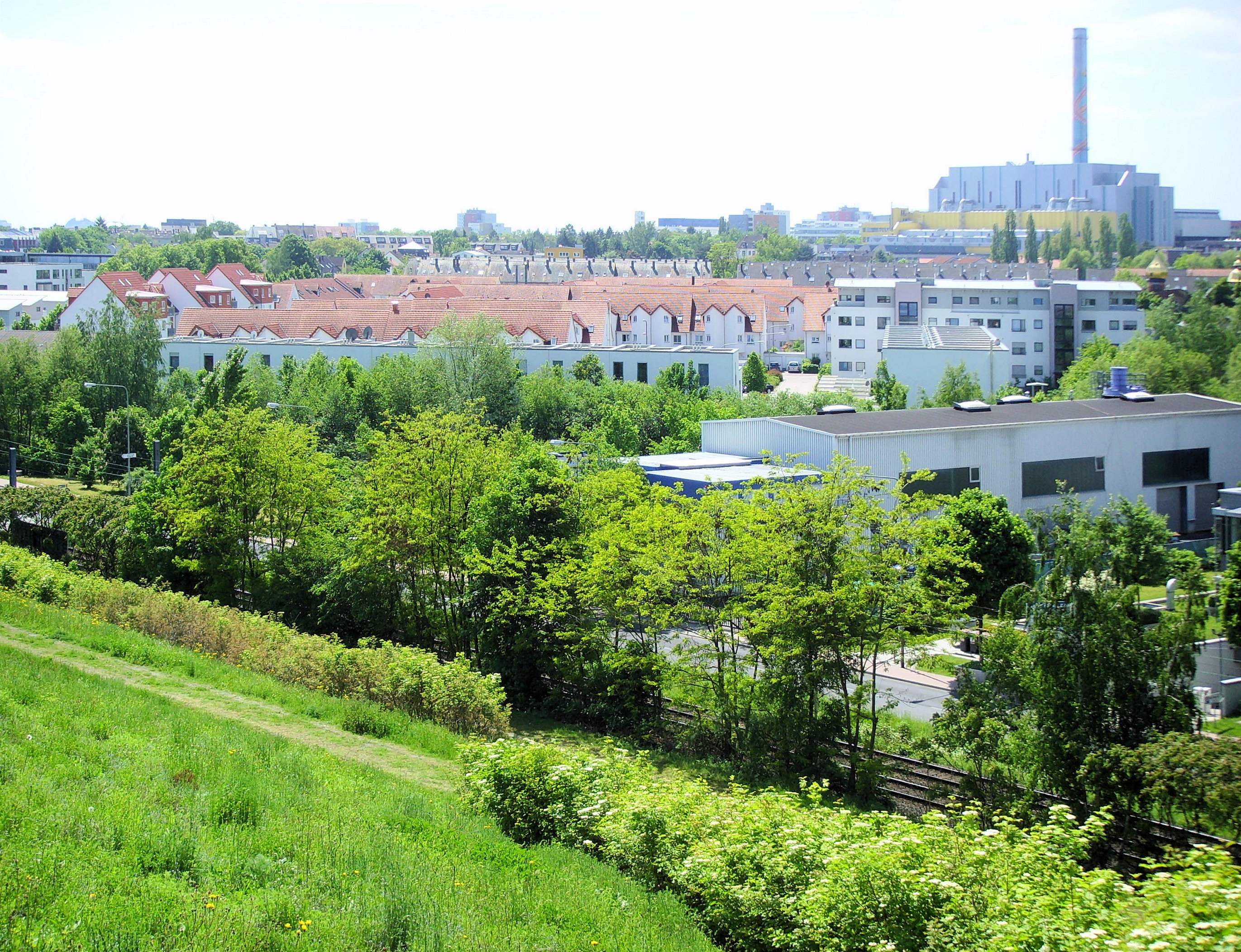 Frankfurt am Main, Mertonviertel